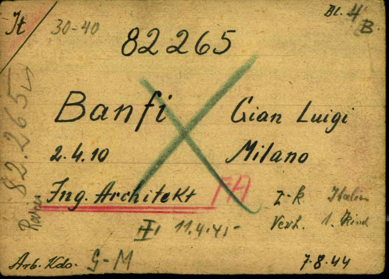 Registration card of Gian Luigi Banfi as a prisoner at Mauthausen Nazi Concentration Camp. The cross signals the day of his death (1 day later than usually considered).